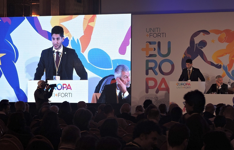 +Europa congress (Milano 2019): Antonio Argenziano speech (Movimento Federalista Europeo)